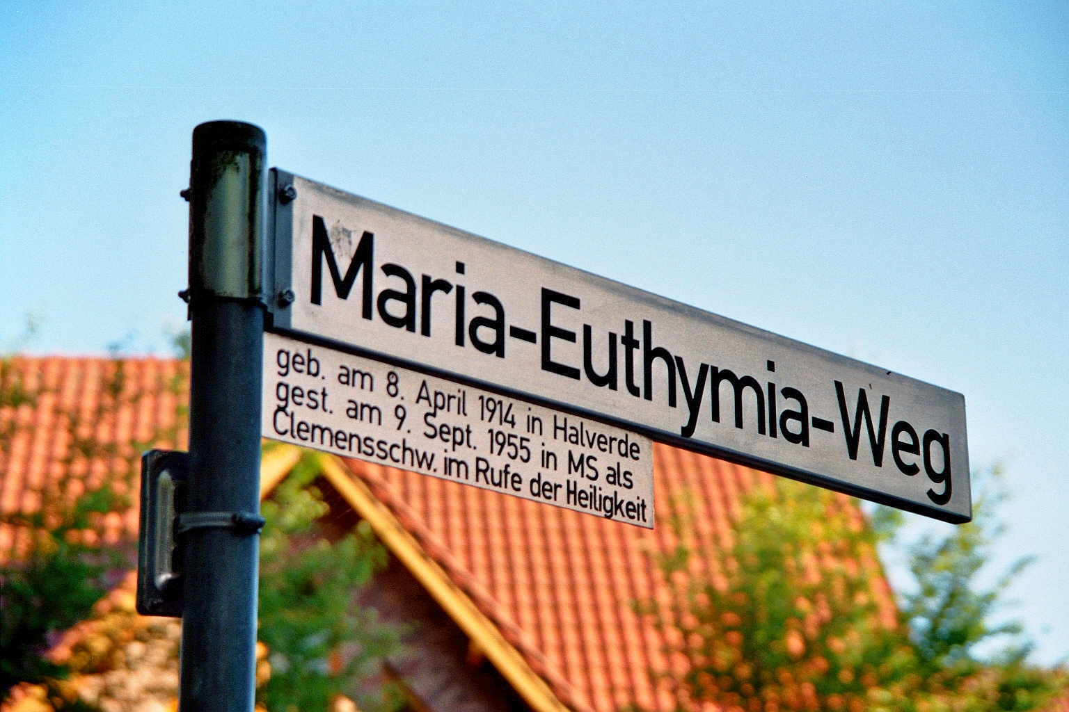 Maria Euthymia Lane (Maria-Euthymia-Weg) in Hopsten-Halverde, Kreis Steinfurt, North Rhine-Westphalia, Germany.